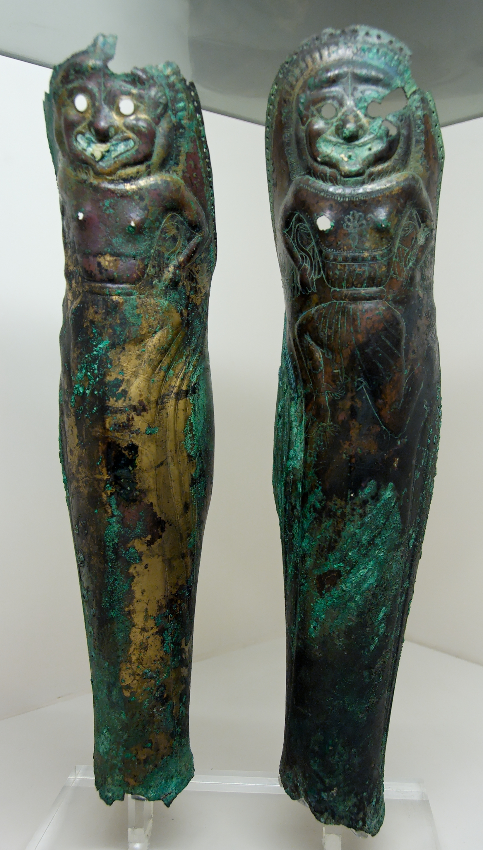 Pair of greaves with a Gorgon's head in relief on each knee. Bronze, made in Apulia, ca. 550–500 BC. From Ruvo.